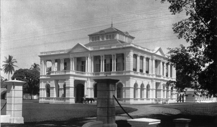 Head office of the Deli Company